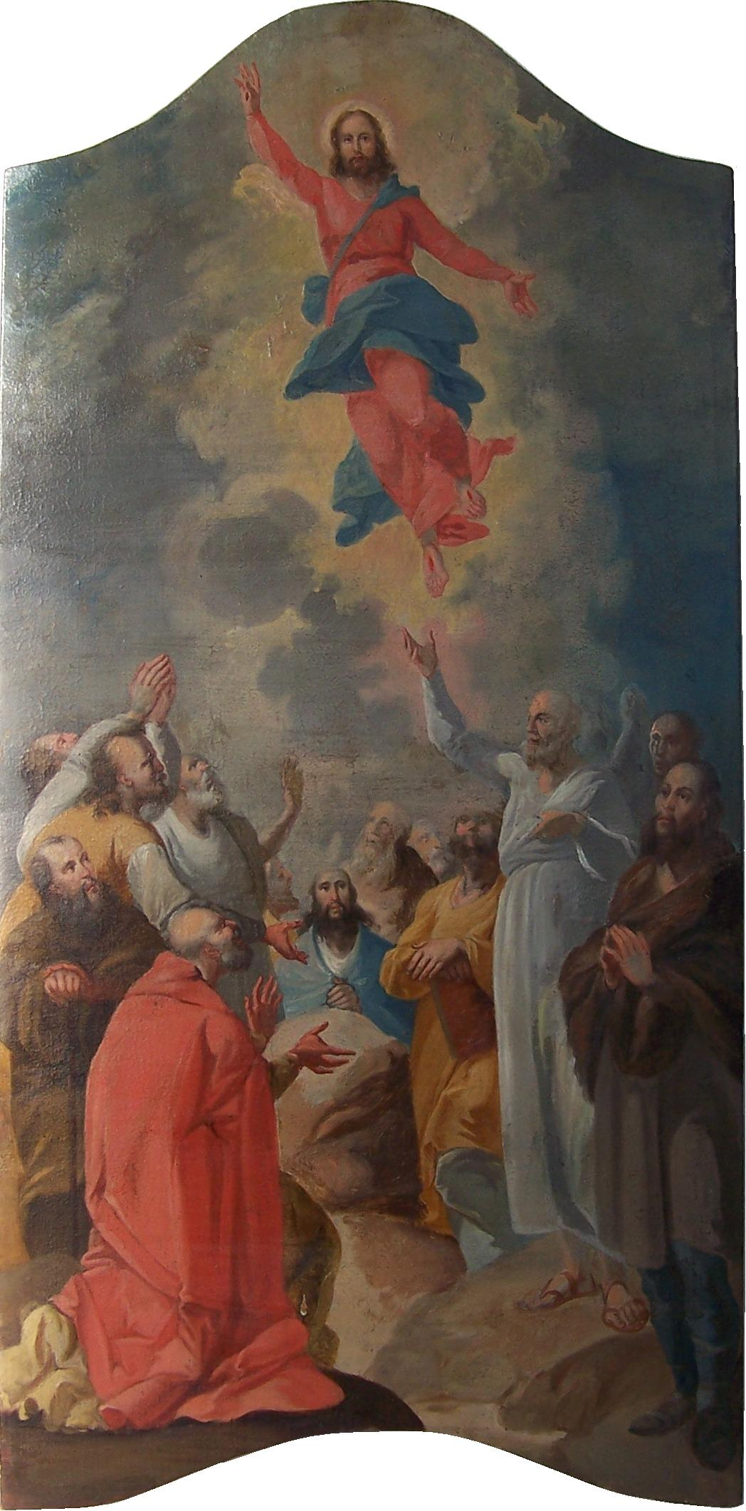 The picture is a Greek Catholic icon depicting the scene of the Ascension of Jesus. The icon was painted in the end of the 18th century as part of the iconostasis of the Greek Catholic Cathedral of Hajdúdorog, Hungary. This icon is placed on the first tier of the iconostasis, the so called Great Feasts tier. This icon is the second painting from the right.